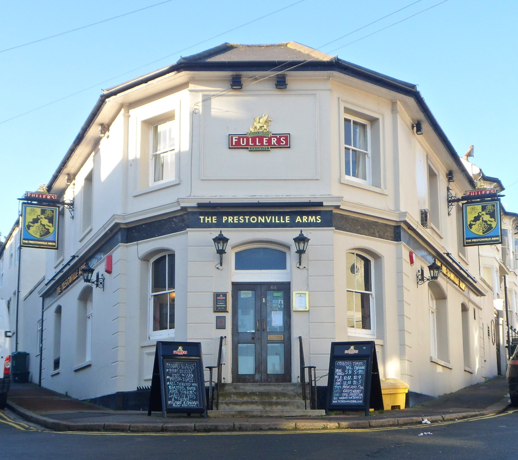 Prestonville Arms, junction of Brigden Street (left of picture) and Hamilton Road (foreground), Prestonville, Brighton, City of Brighton and Hove, England.